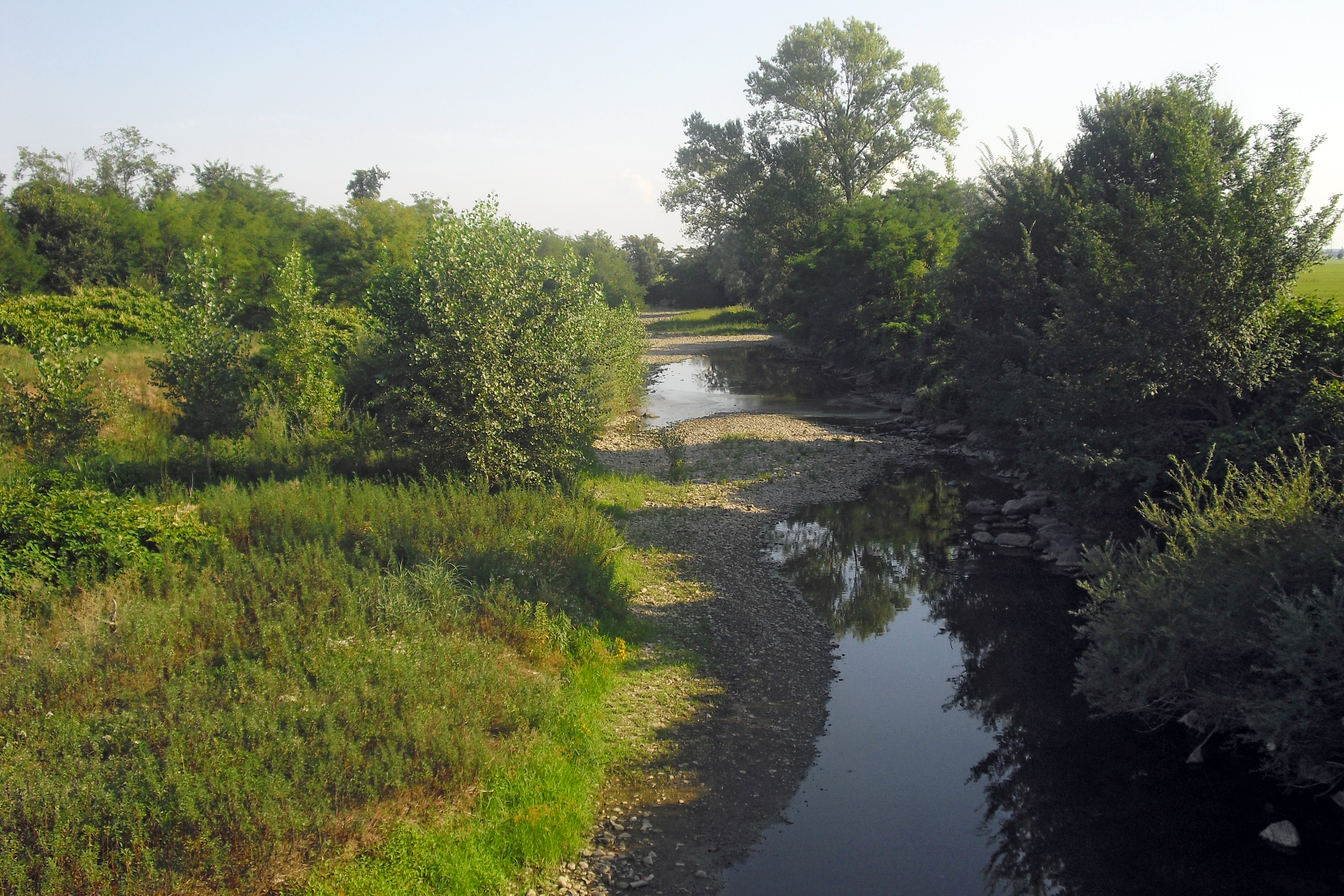 Agogna creek near Morghengo